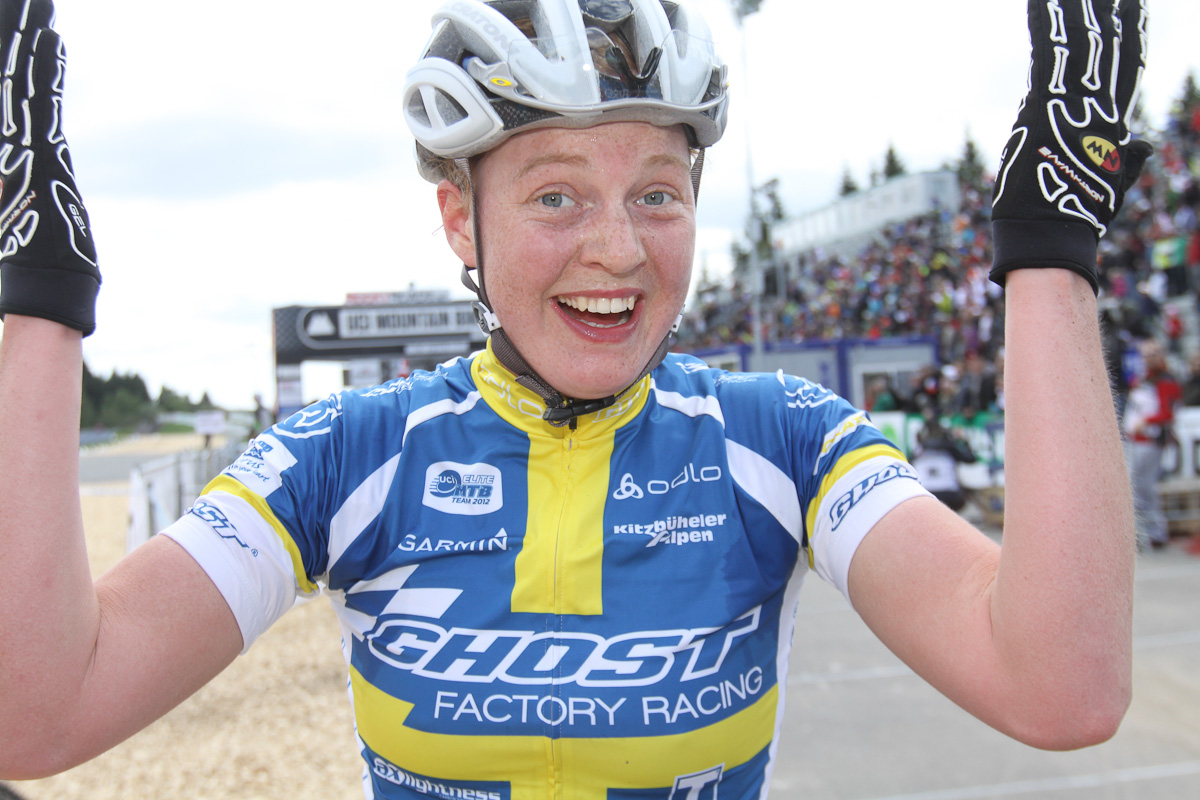 Swedish mountain biker Alexandra Engen.